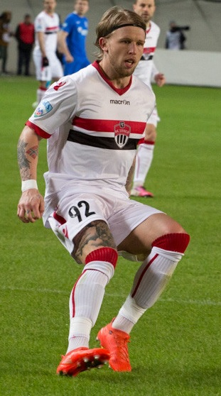 Tim André Nilsen playing for FC Khimki against FC Dynamo Moscow.